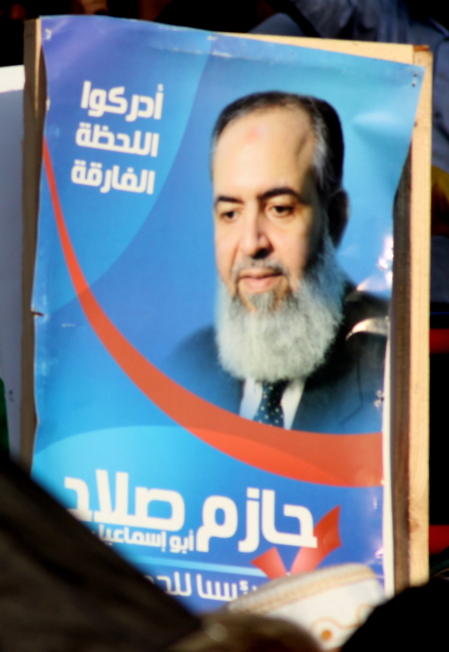 Huge number of Abou Ismail supporters lifting banners, and dedicating a stage for supporting him as a presidential candidate.